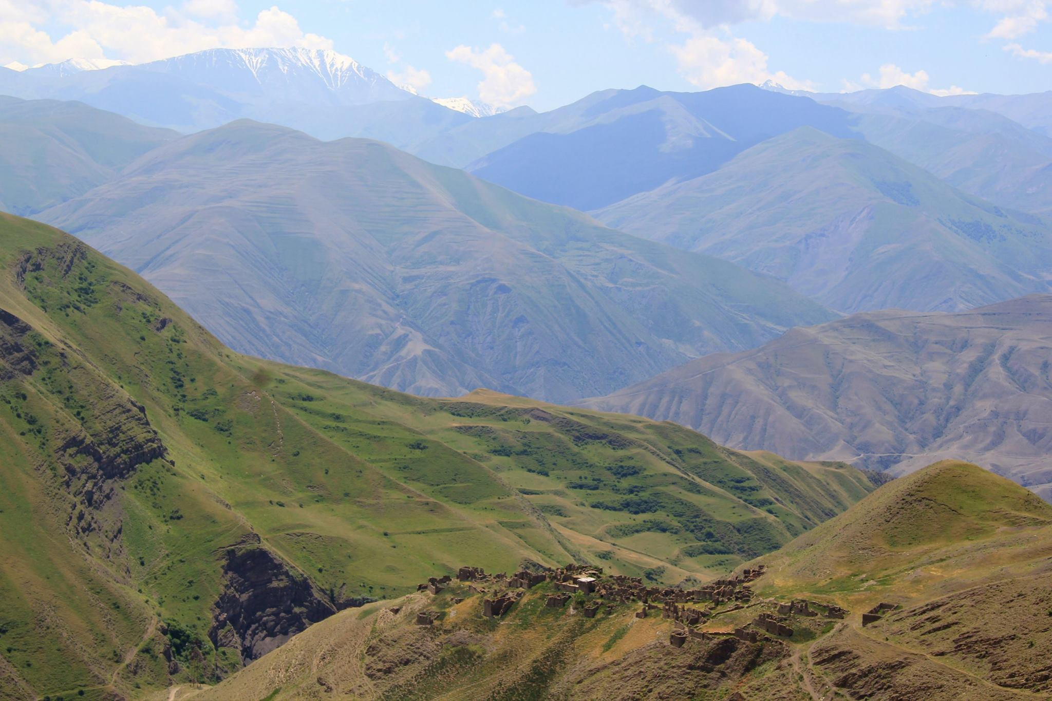 Abandoned Lezgian village of Grar in Dagestan